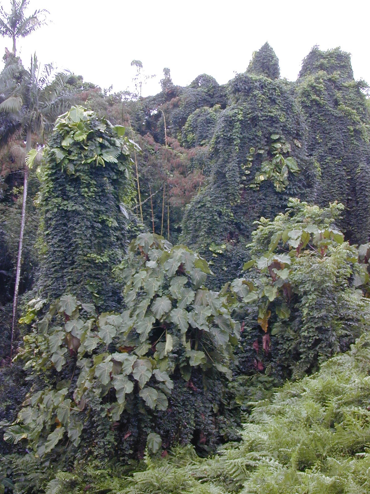 Paederia foetida (draping habit). Location: Hawaii, Keaukaha